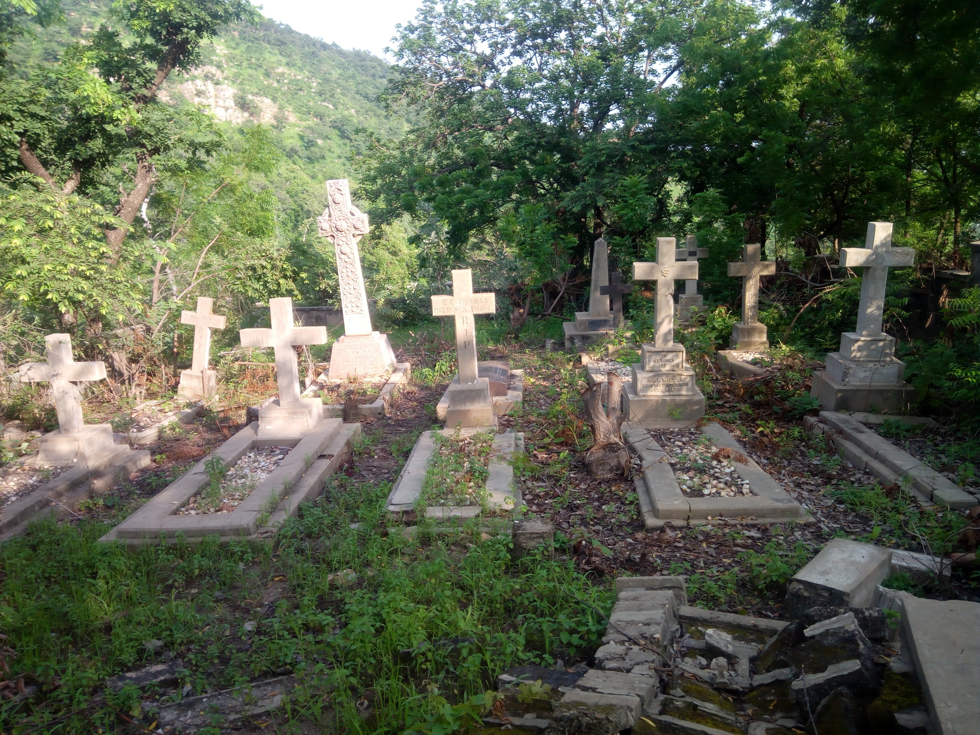 This is the graveyard of the representatives of the British Crown who used Jebba as the seat of administration who died and was buried at Jebba.